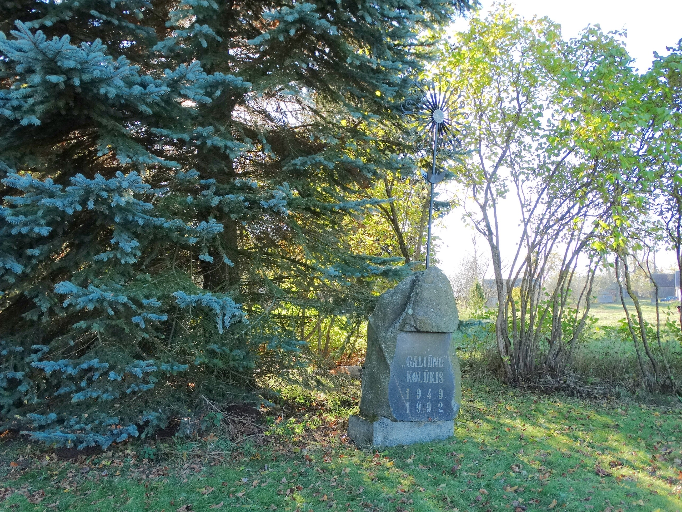 Eičiūnai, Alytus district, Lithuania